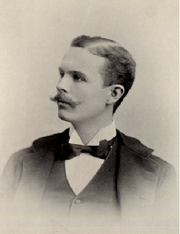 George (Georg) Merck senior, founder of Merck & Co.